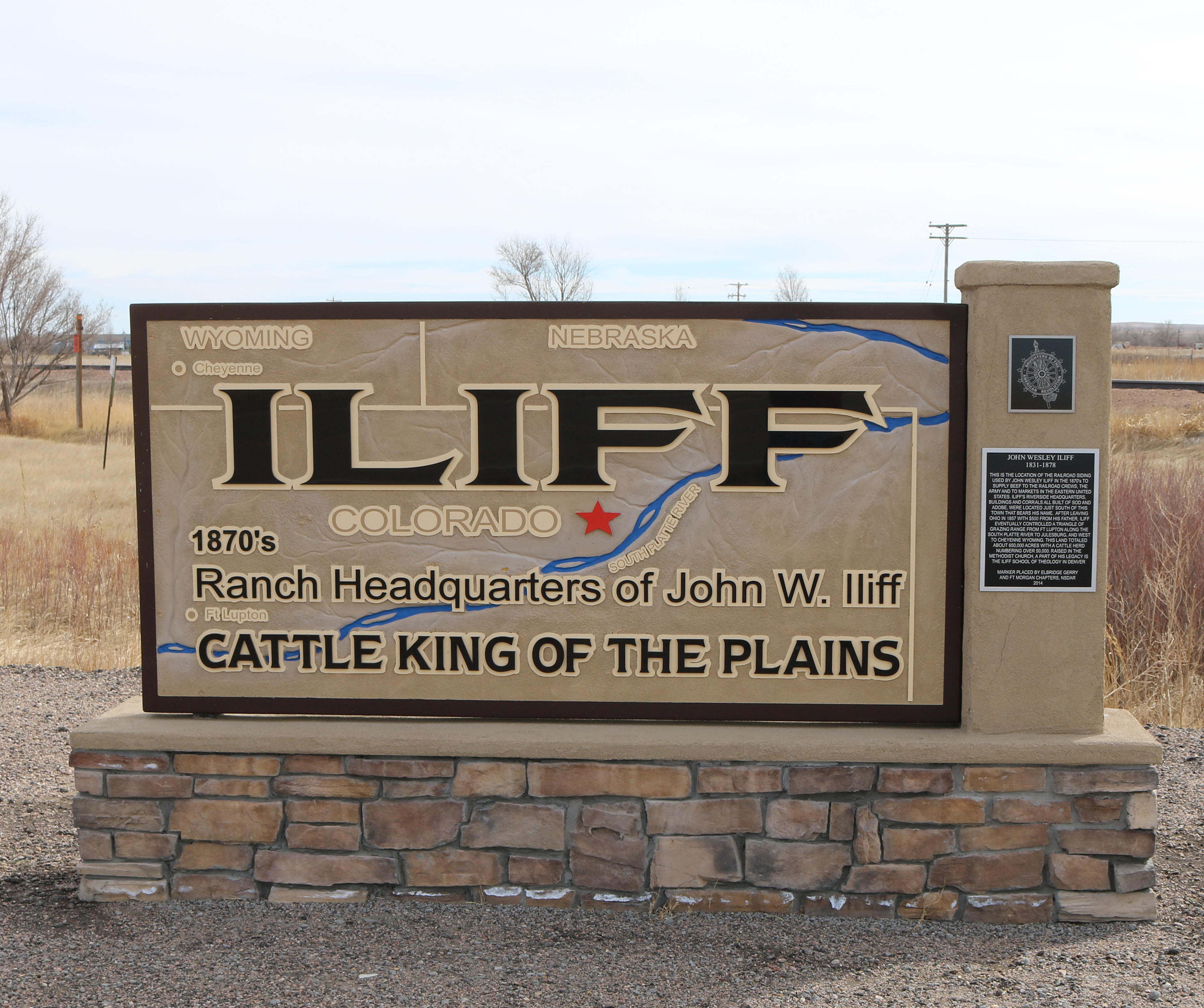 A sign marking the town of Iliff, Colorado. The text on the sign says, "Iliff Colorado, 1870's Ranch Headquarters of John W. Iliff, Cattle King of the Plains." The sign is located along U.S. Route 138 (Railroad Avenue) on the west side of Iliff.